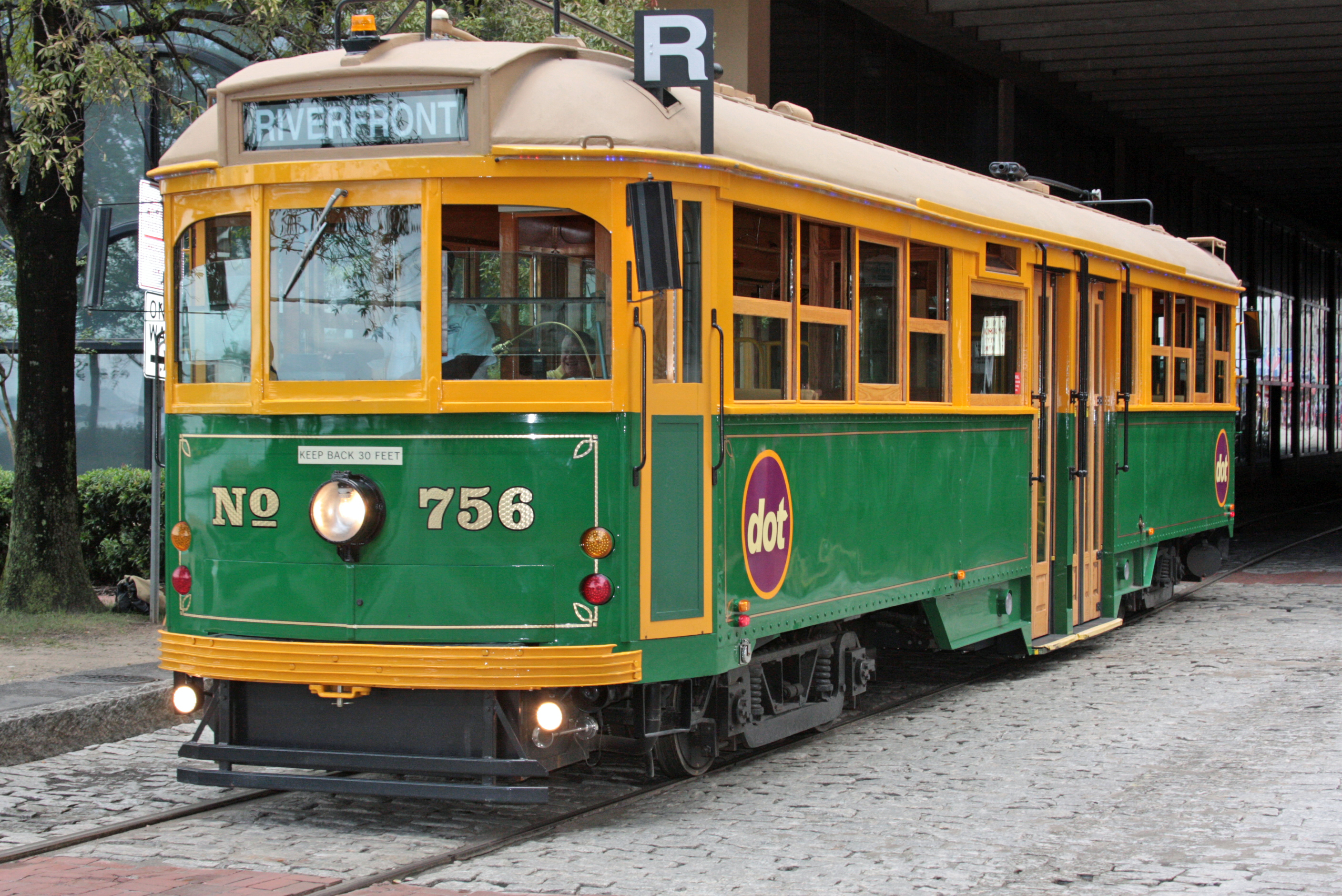 Car 756 of the River Street Streetcar line in Savannah, Georgia, USA, is an ex-Melbourne SW5-class streetcar.